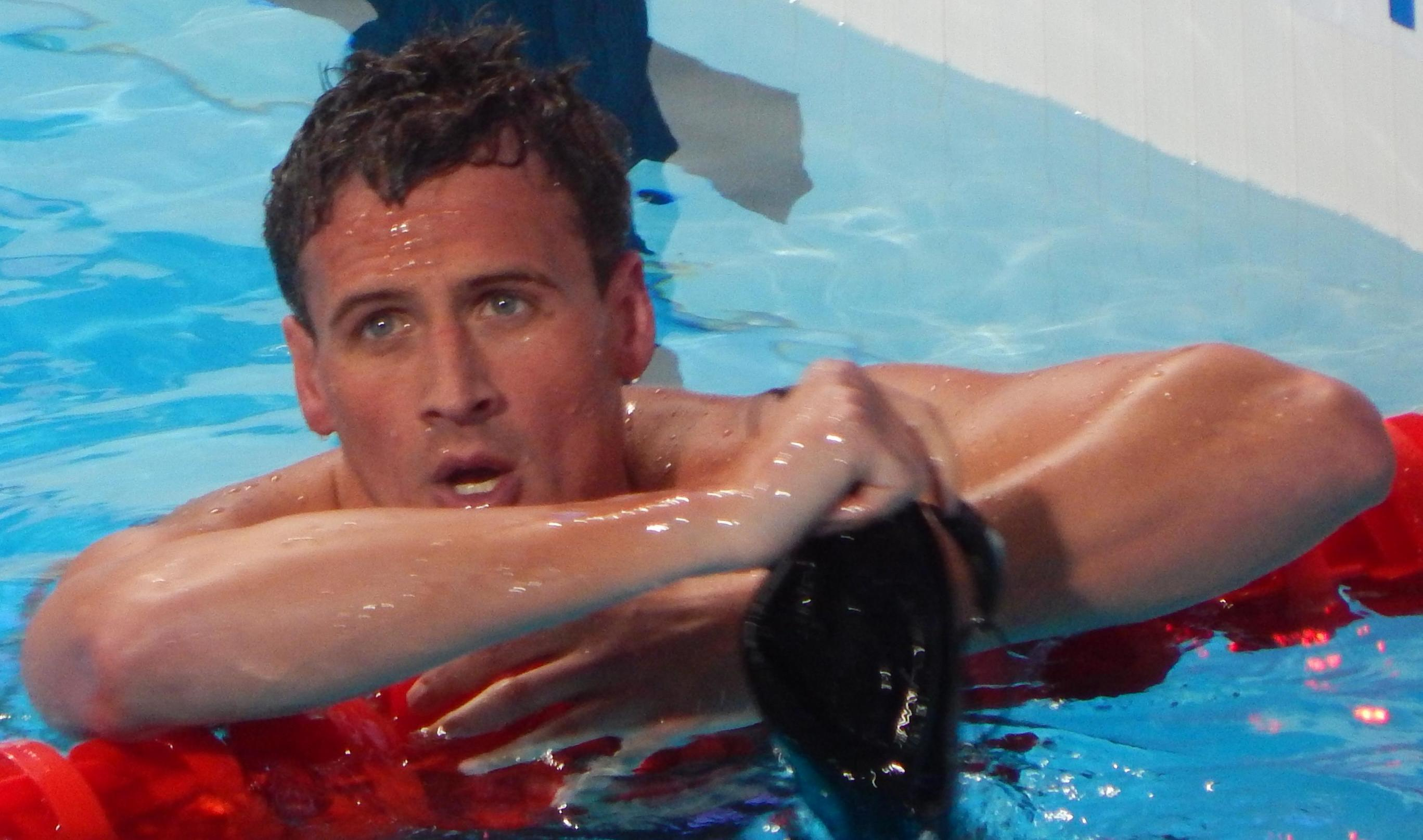 Ryan Lochte wins the second semi 200m freestyle in Kazan